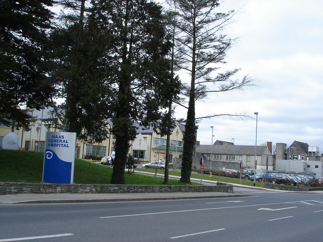 Naas General Hospital Entrance to new part of hospital site. The original (still in use) hospital can be seen to the right. The apex roof by the water tank being the main part of the old hospital & also in times past a work house for the poor of Naas